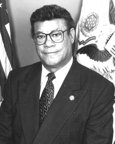 Esteban Edward Torres, Member of Congress from Los Angeles, California (1983-99)